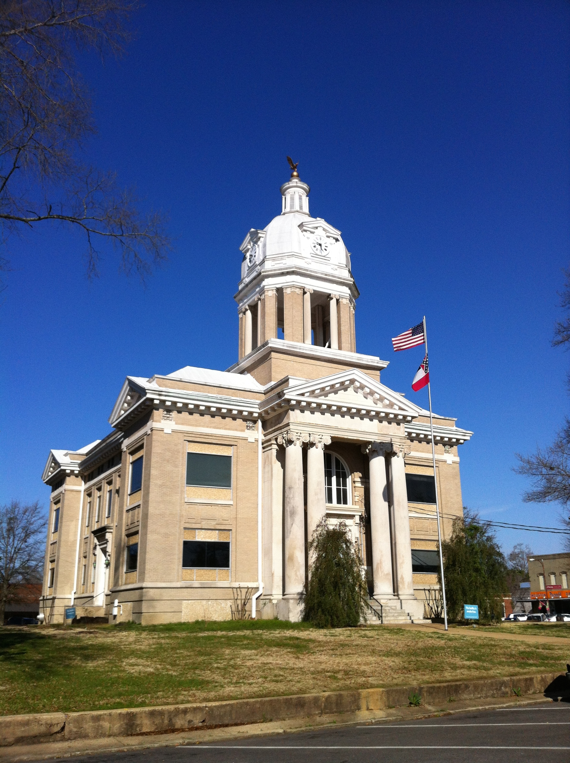 Chickasaw County, Mississippi courthouse in Houston, Mississippi, 24 Mar 2014.